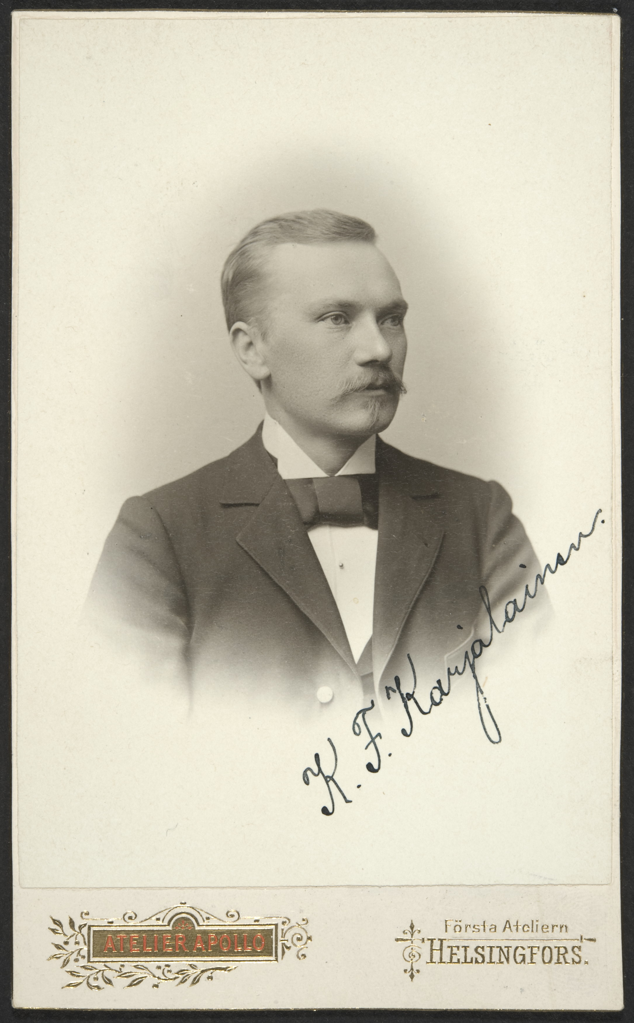 Photograph of the Finnish linguist and explorer Kustaa Karjalainen (1871–1919).